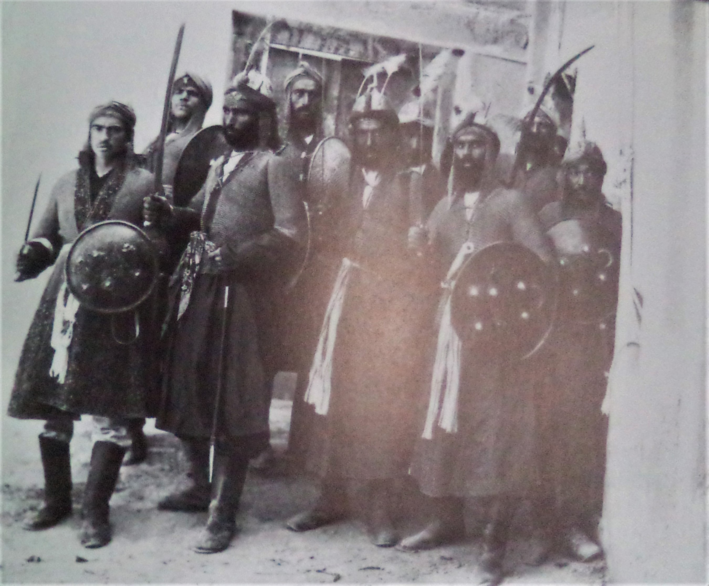 Actors of Ta'zieh or Condolence Theater in Isfahan- Theatrical re-enactment of the Battle of Karbala- Ernst Hoeltzer